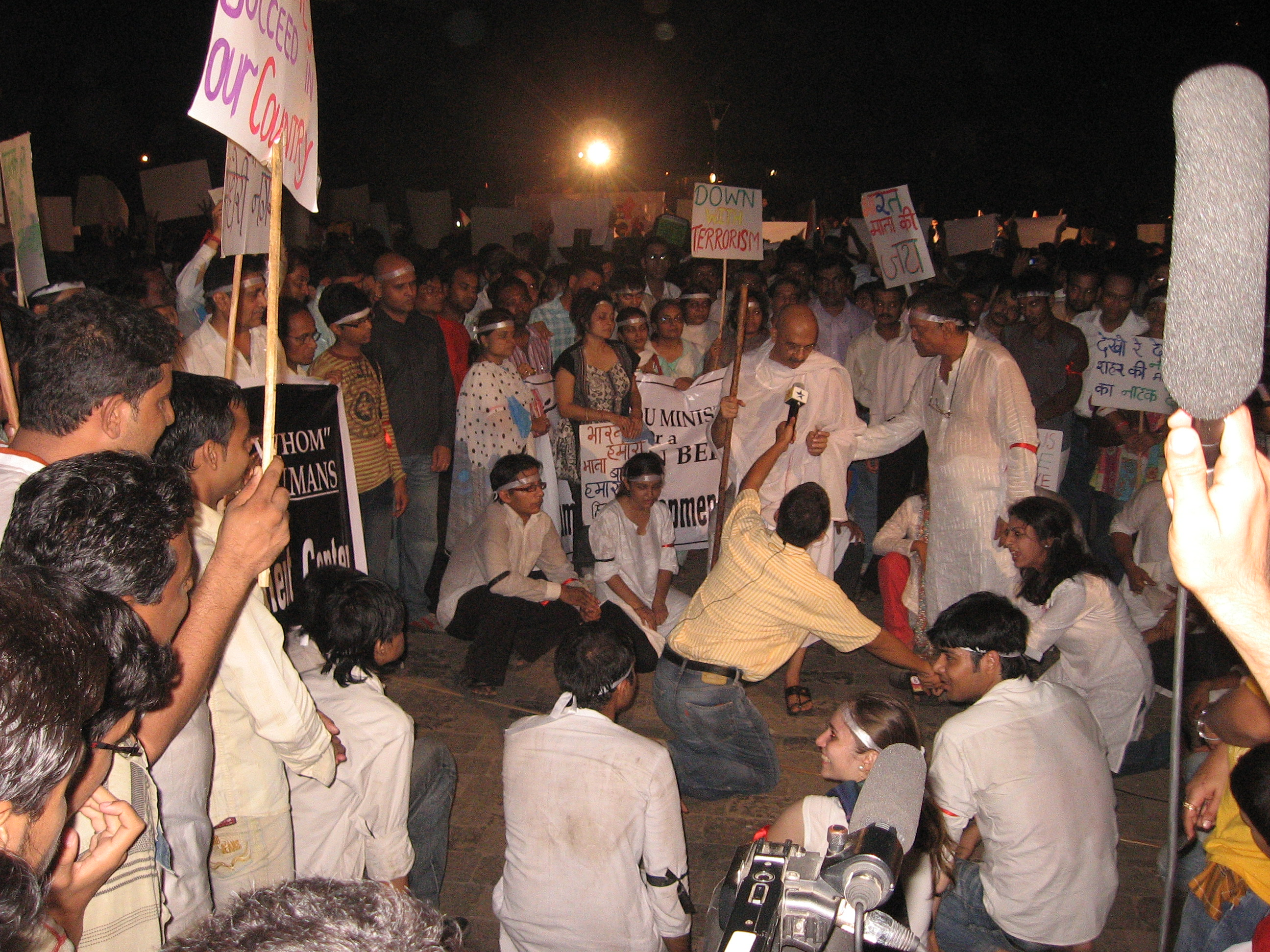 Protest meet at the Gateway of India to mark solidarity with the victims of the November 2008 Mumbai attacks